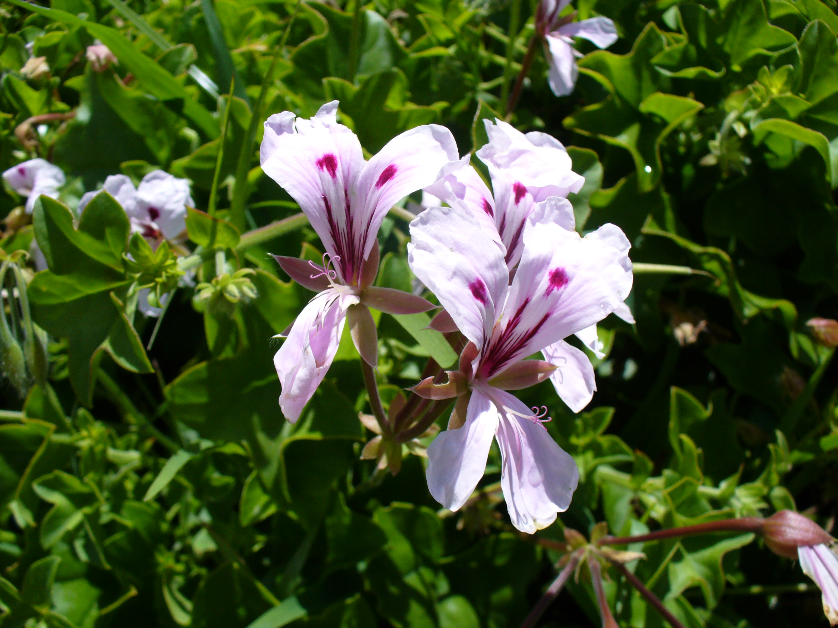 Ivy leaved pelargonium